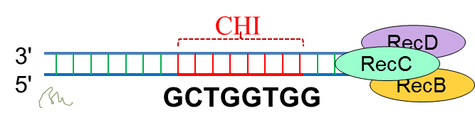 CHI site (Chi sequence) in E.coli